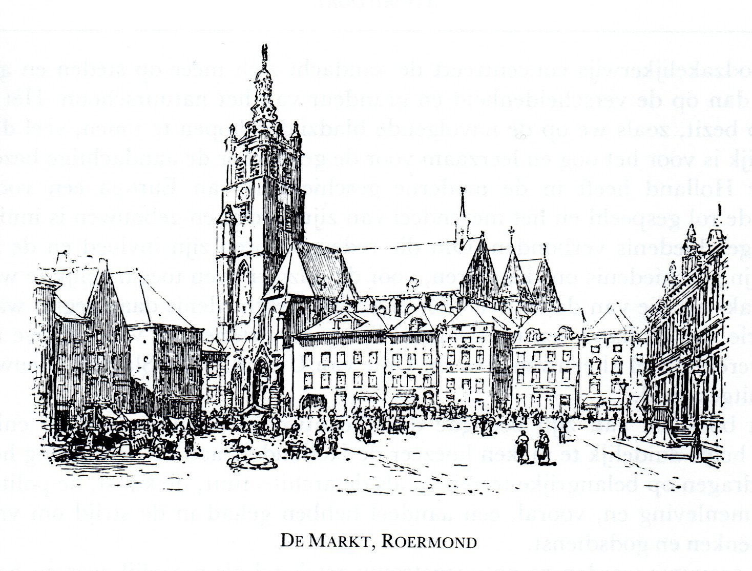 Market in Roermond, the Netherlands